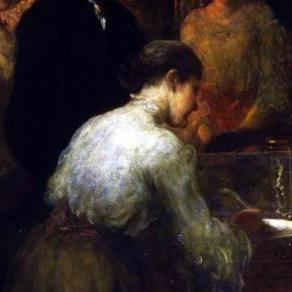 James Sant (died 1916) showing 'Linnean Society of London: First Formal Admission of Women Fellows', painted in 1906. ref -Proceedings of the Linnean Society of London. (One Hundred and Eighteenth Session, 1905‐1906.) November 2nd, 1905, to June 21st, 1906. She features in the portrait by James Sant showing 'Linnean Society of London: First Formal Admission of Women Fellows', painted in 1906. Gage, A. T. (1938). A history of the Linnean Society of London: Printed for the Linnean Society by Taylor and Francis, p.90. Constance Sladen She is the standing figure centre-left in the portrait. The first admission of women as fellows of the society in 1905, Emma Louisa Turner is on the far left, Lilian Jane Gould/Veley is shown signing the membership book, whilst Lady Catherine Crisp receives the 'hand of Fellowship' from the president, William Abbott Herdman, behind Lilian Jane Gould/Veley and standing is Constance Sladen - from a painting by James Sant (1820–1916)